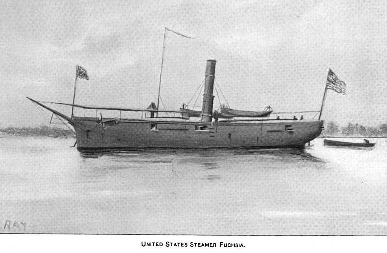 USS Fuchsia